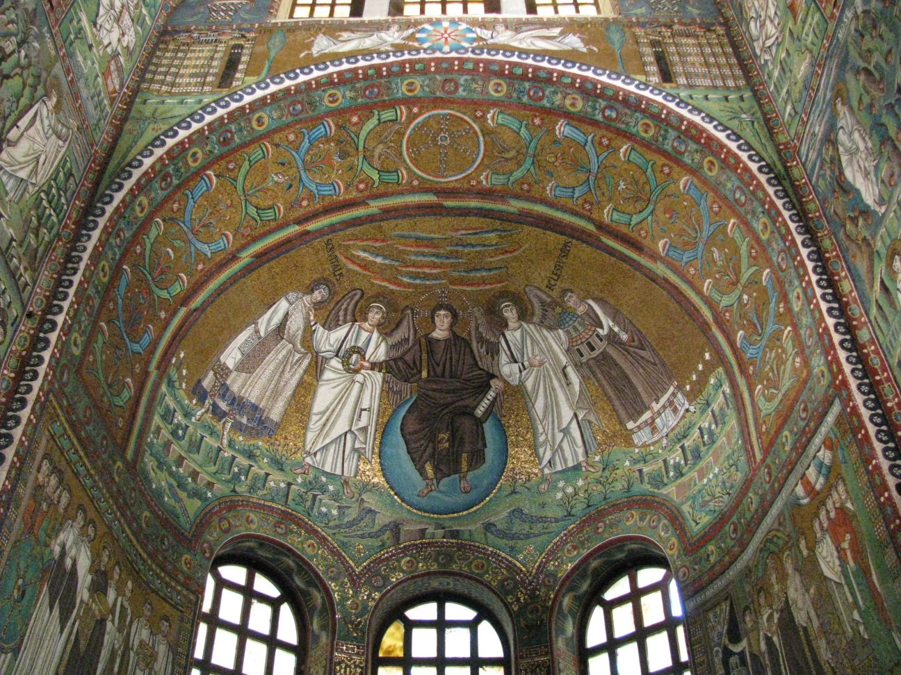 Cupola of the choir: Christ offers the martyr crown to San Vitale, while an angel offers a model of the church to bishop Ecclesius; Basilica of San Vitale in Ravenna, Italy.